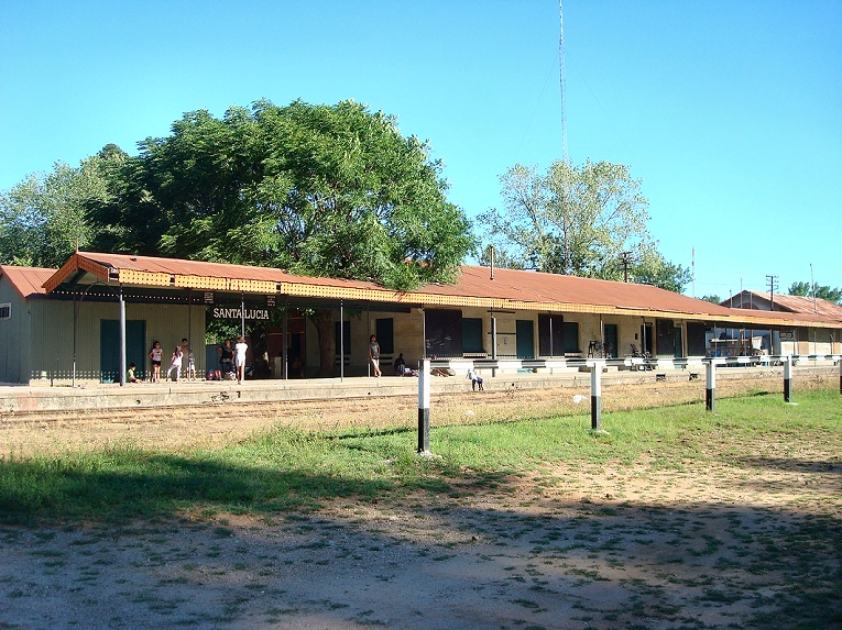 The train station in Santa Lucia by the homonymous park and river.